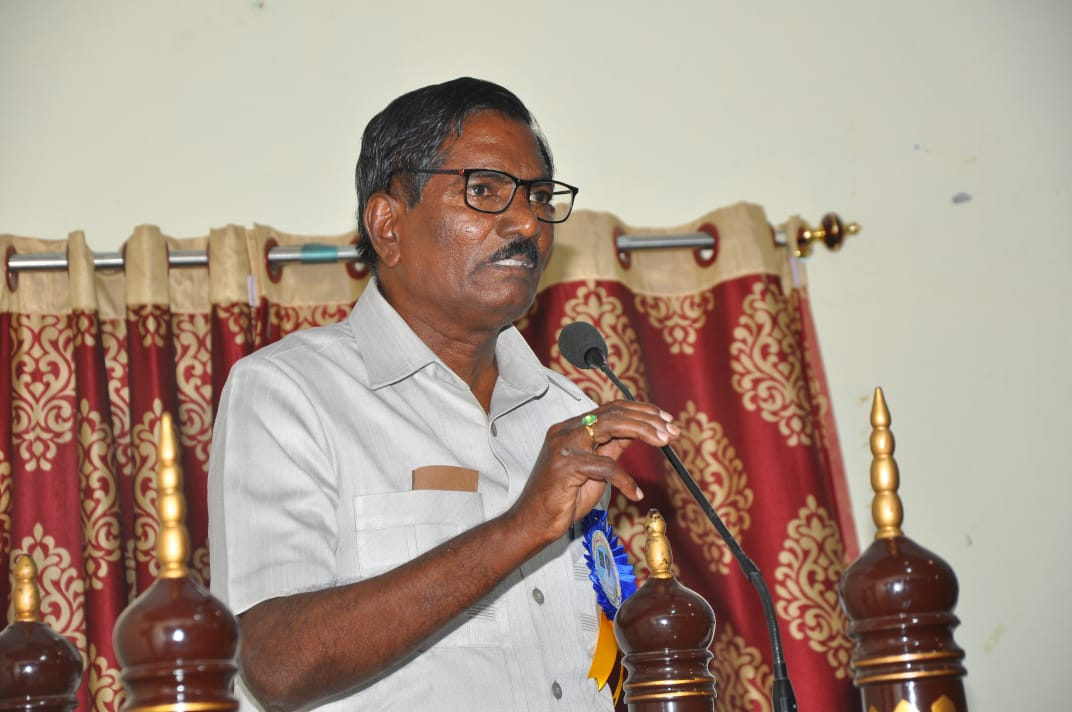 Ganishetty Ramulu (Writer)